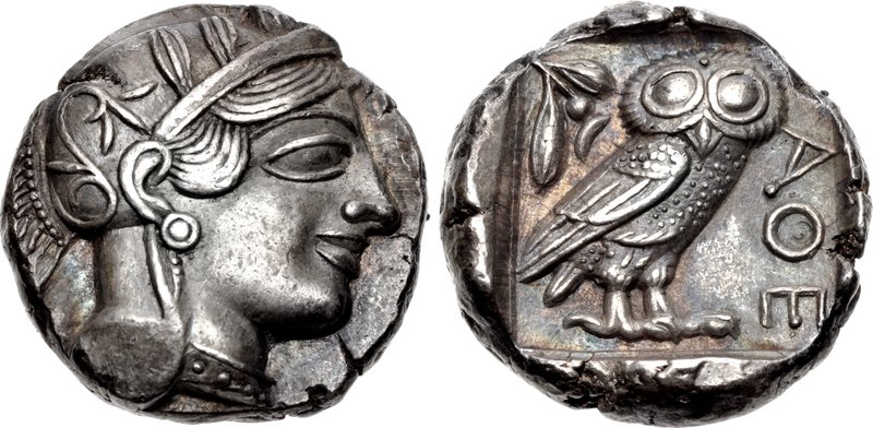 Attica, Athens. 454-404 BC. AR Tetradrachm (16.85 g). Helmeted head of Athena right / ΑΘΕ, owl standing right; olive-sprig and crescent above. SNG Copenhagen 39.